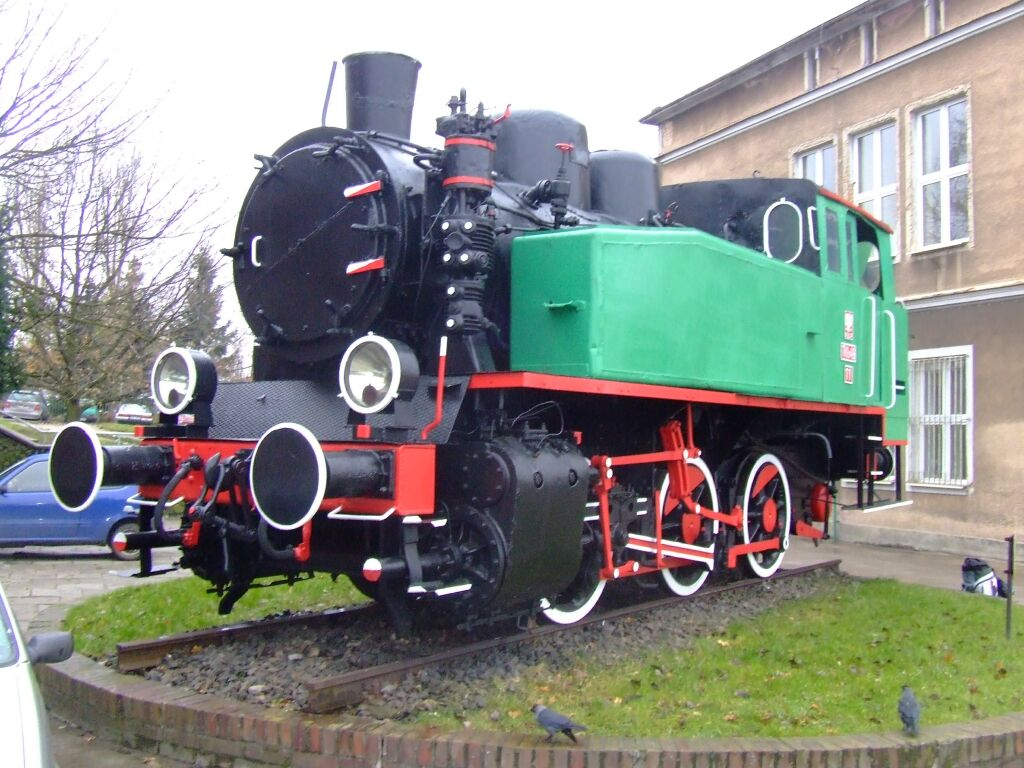 Tkh49 front